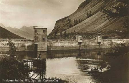 Rochemolles dam in 1937